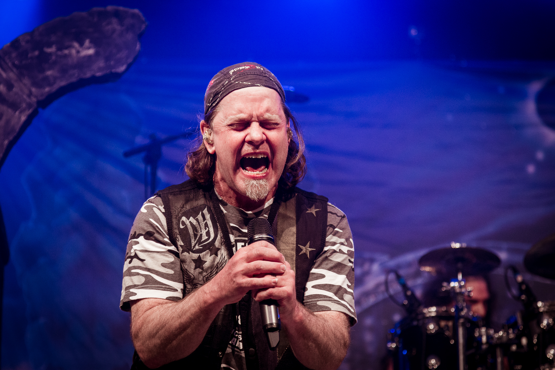 John Arch, original Fates Warning vocalist during the Keep It True Festival (Awaken The Guardian album 30th Anniversary Show) in Lauda-Königshofen, Germany (2016.04.30)